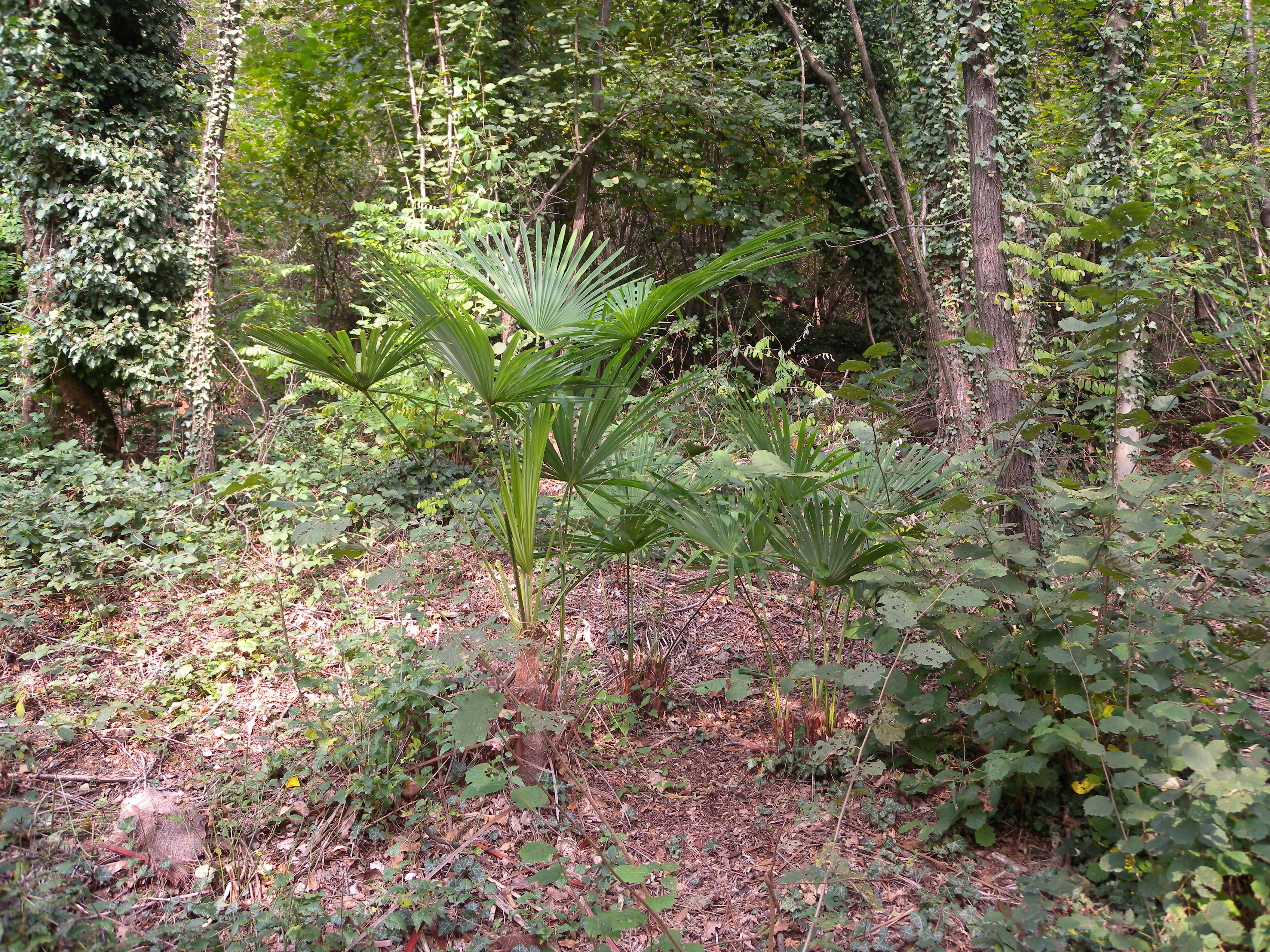 Trachycarpus fortunei (Arecaceae); Monte Caslano, Canton of Ticino, Switzerland